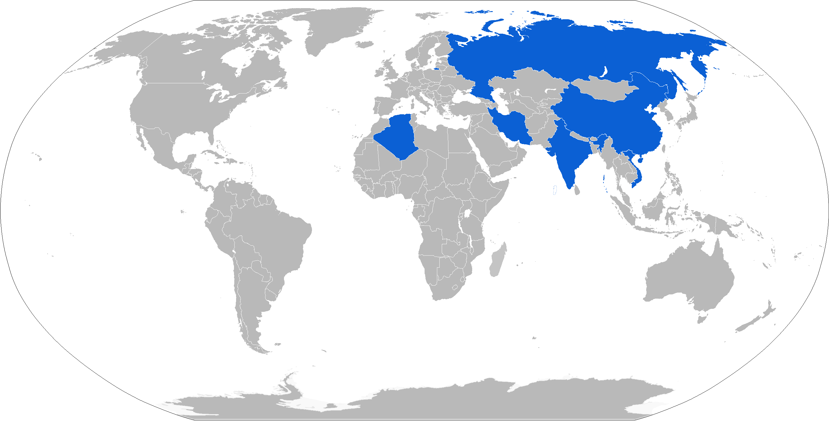 Map with 3M-54 operators